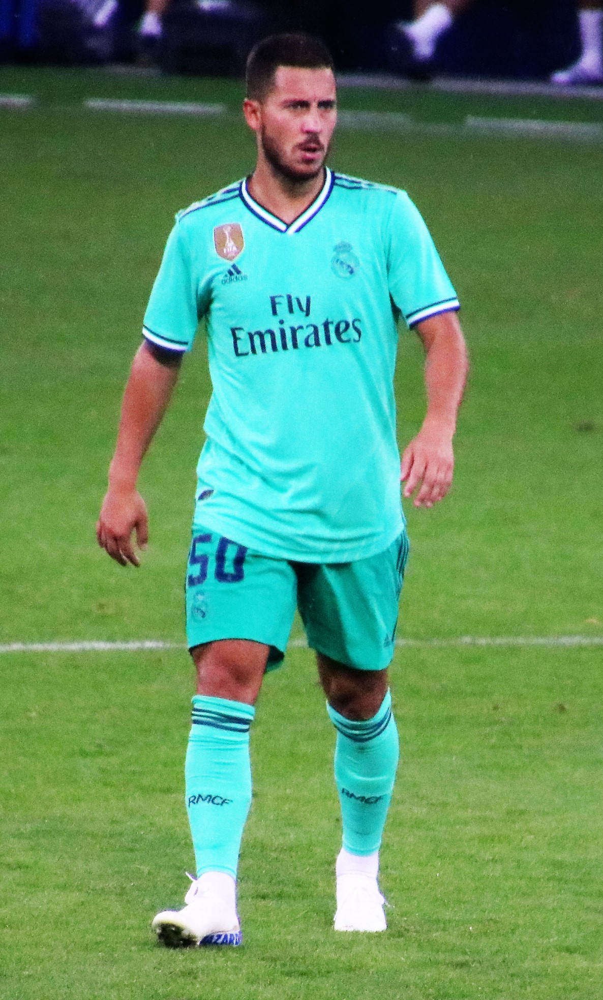 Preseason match